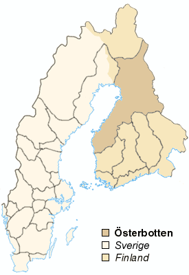 Map Historical Provinces of Finland, Österbotten (copied from en.wiki) - modified text in picture to Swedish.